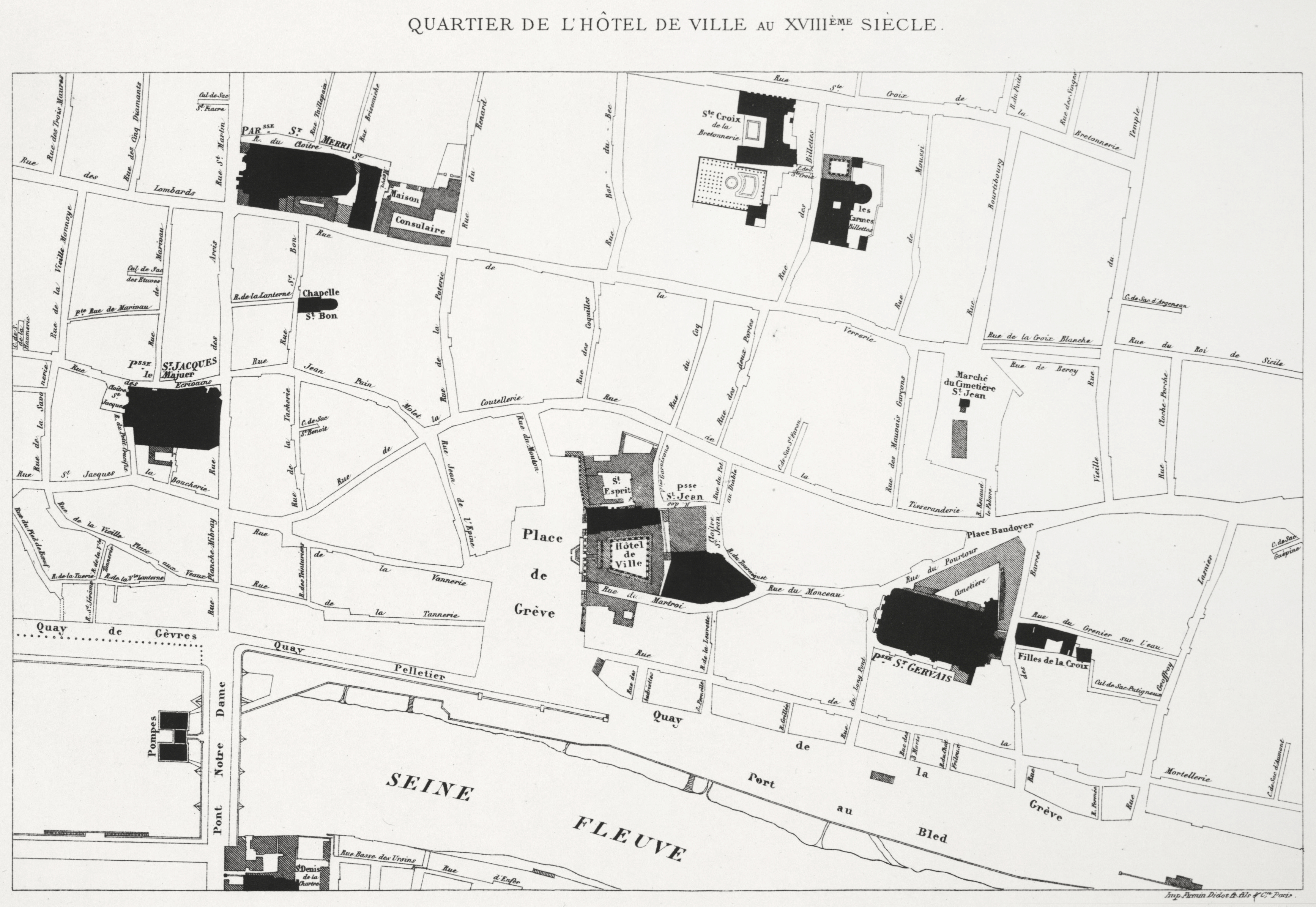 A plan of the Hôtel de Ville neighborhood of Paris during the 18th century. The overlay shows the same area in 1875.